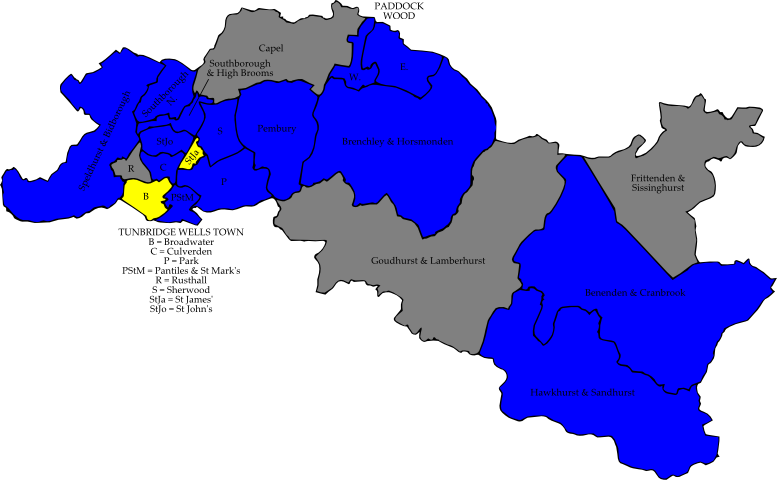 A map of the results of the 2006 Tunbridge Wells Council election. Colour legend by wards won: Conservative party Liberal Democrats Wards in grey were not contested in 2006.